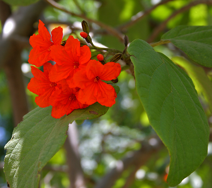 Geiger Tree Cordia sebestena in Hyderabad , India.